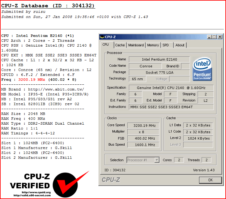 Demonstrating the overclockability of the Pentium Dual-Core E2140.